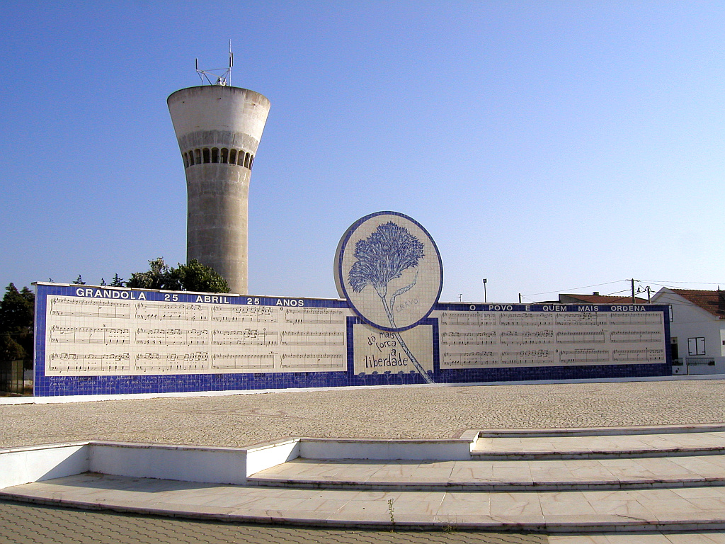 Monument to the 25 April 1974 Revolution that restored democracy in Portugal. The score on the monument is that of a song banned by the fascist regime, "Grândola Vila Morena", that praises the town's strong sense of community spirit. The song was played at a pre-arranged time on the radio in the early hours of 25 April as a signal to the insurgents to proceed with the uprising.